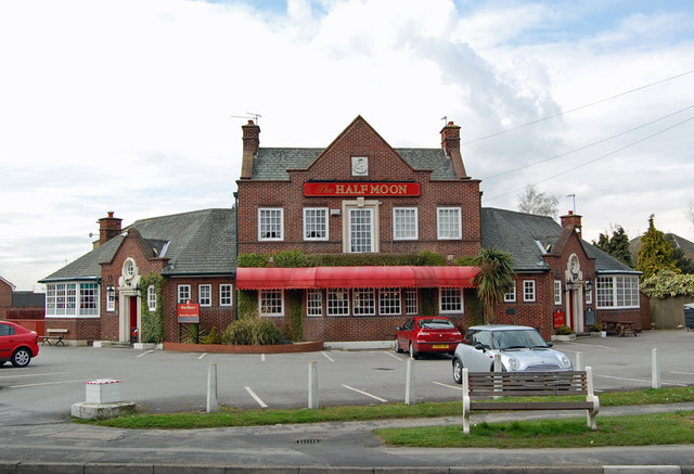 The Half Moon, Elloughton, East Riding of Yorkshire, England.Photo taken from Main Street.